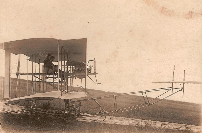 The Blackburn-Walker biplane in its modified configuration at Dagenham, 1909. On left is Harold Blackburn.